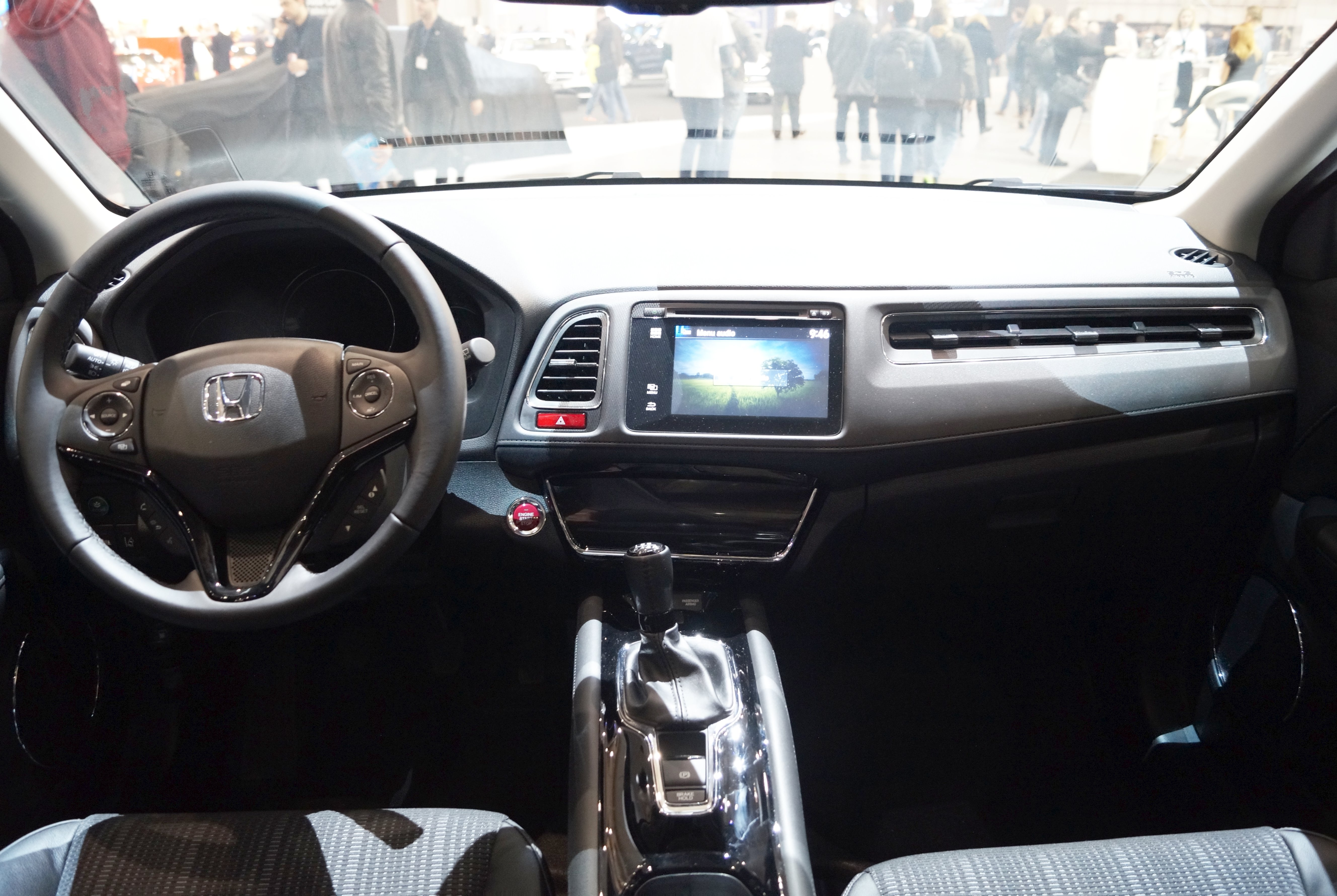 The making of this document was supported by Wikimedia Polska Association, within Wikigrant no. WG 2016-10. English | polski | +/− Wnętrze Hondy HR-V na Motor Show Poznań 2016